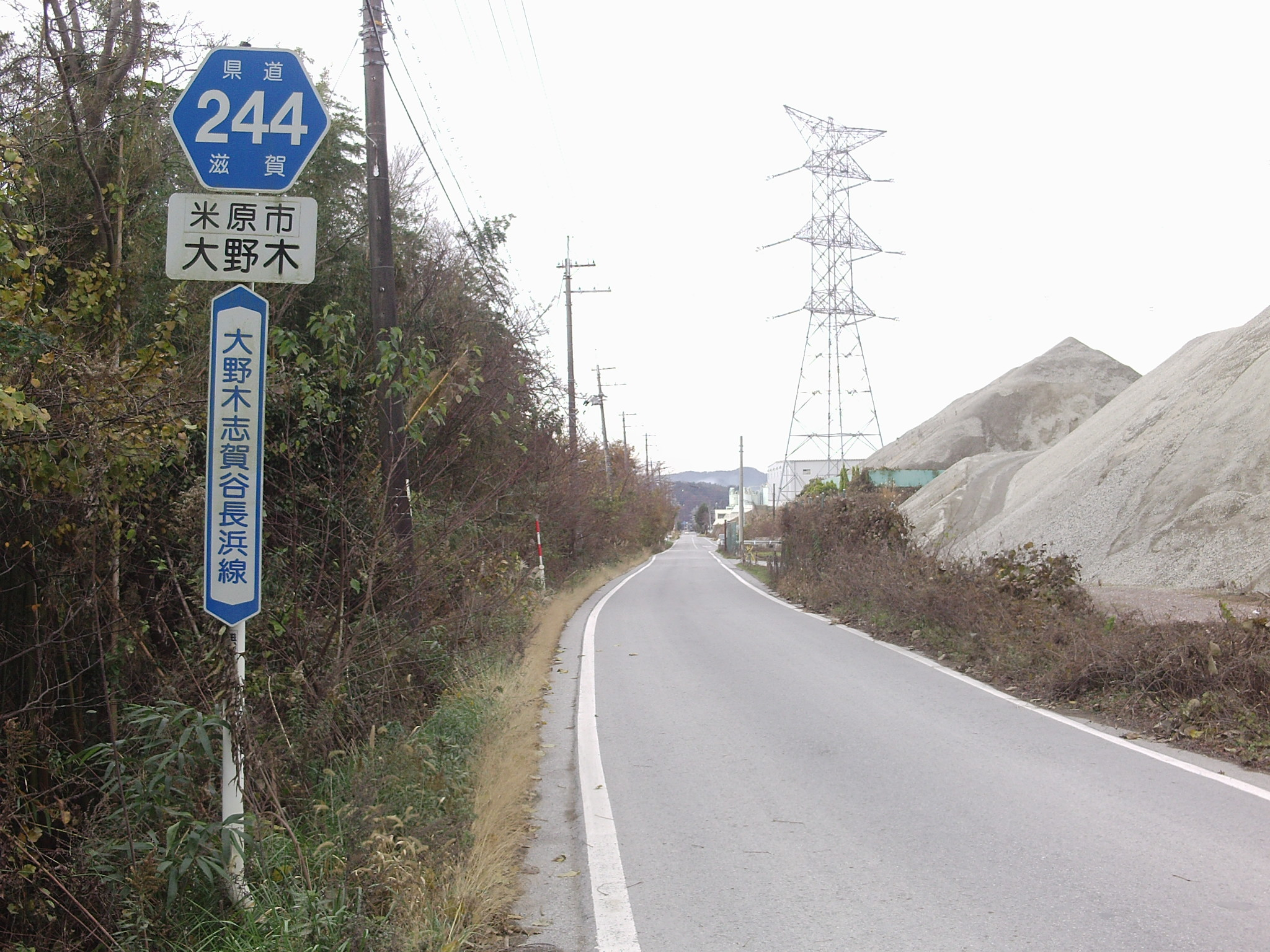 Shiga prefectural road No.244 in Onogi, Maibara, Shiga.